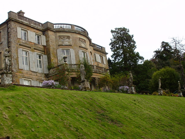 Haining House Selkirk A grand old house with statues at the front overlooking the loch.